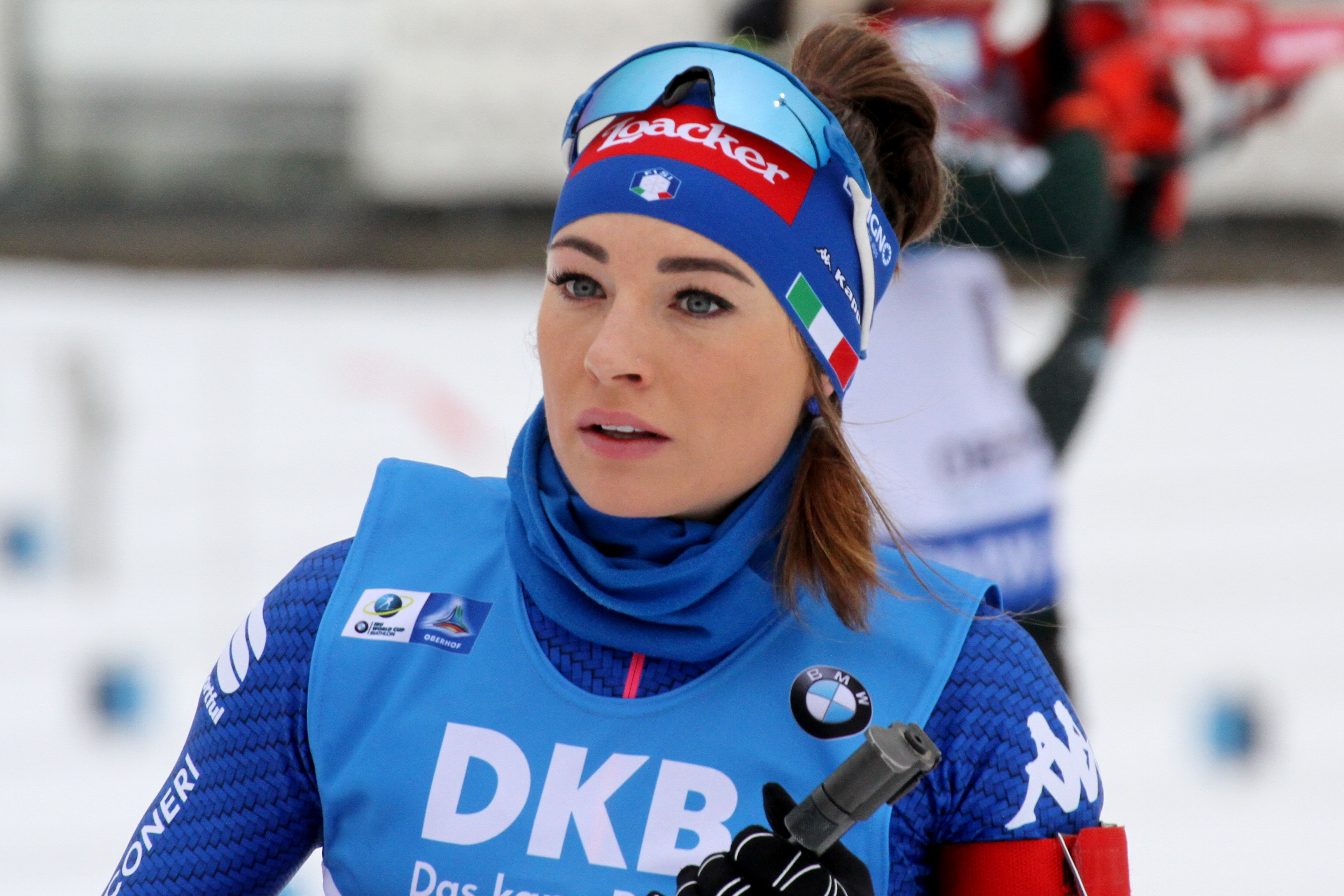 2018 Oberhof Biathlon World Cup - Sprint Women